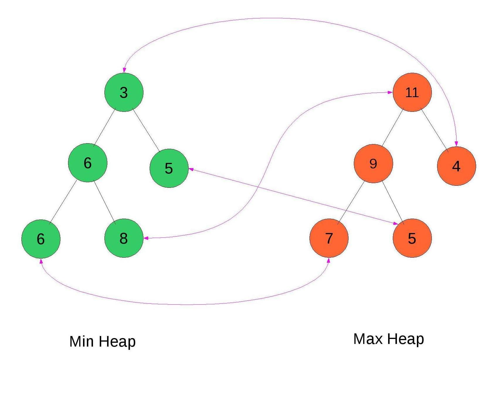 A method for implementing Double ended priority queue(DEPQ)